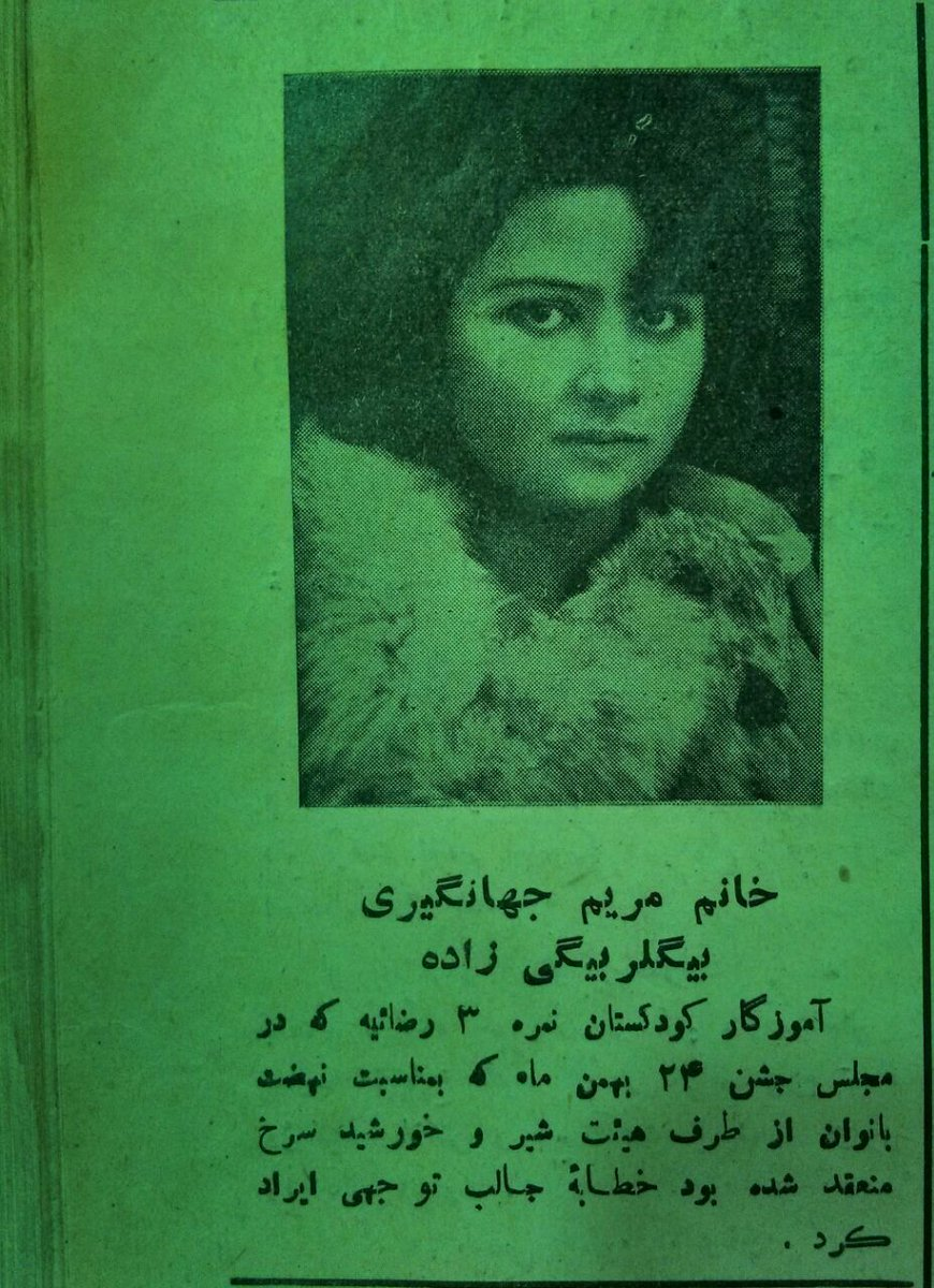 Maryam Jahangiri in 1940s